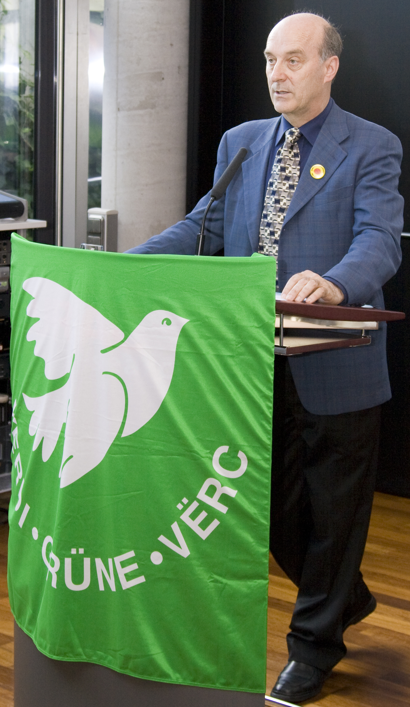 Sepp Kusstatscher (MEP for the italian Green party 2004 - 2009)